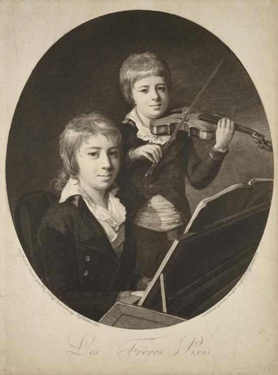 Young musicians from Germany, violinist Friedrich Wilhelm Pixis (1786—1842) and pianist Johann Peter Pixis (1788—1874)